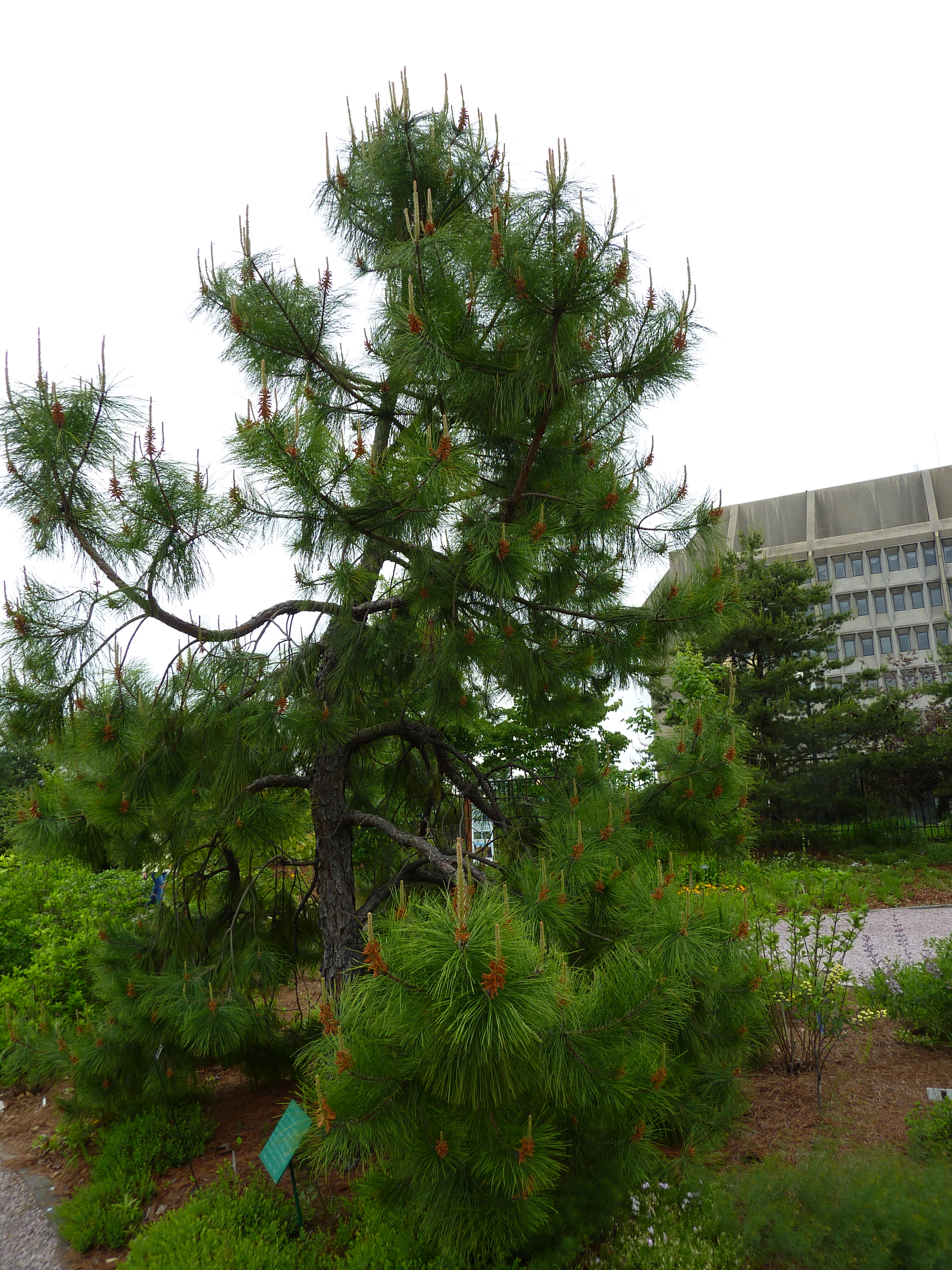 Pinus serotina in the United States Botanic Garden